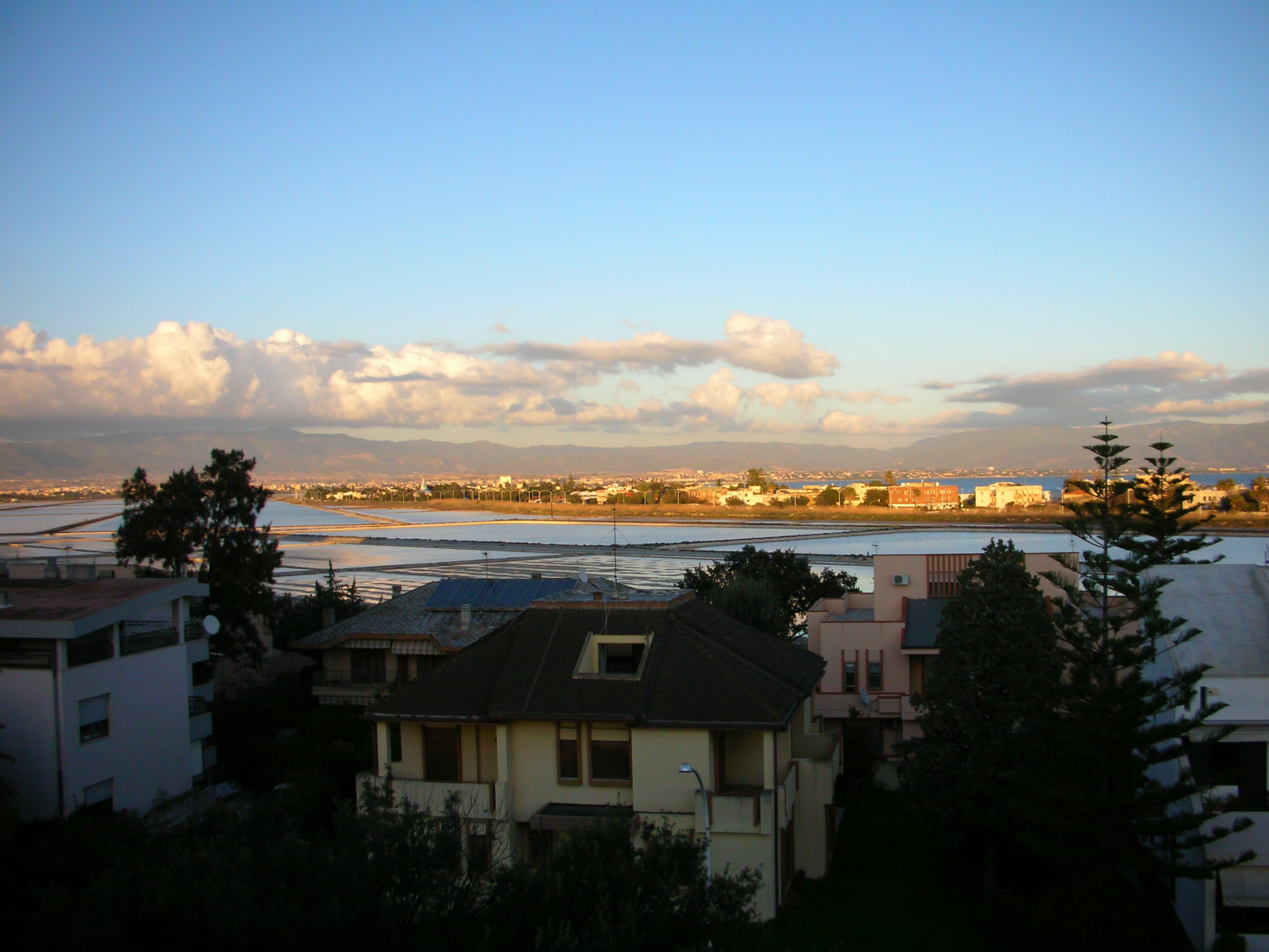 Photo of Cagliari